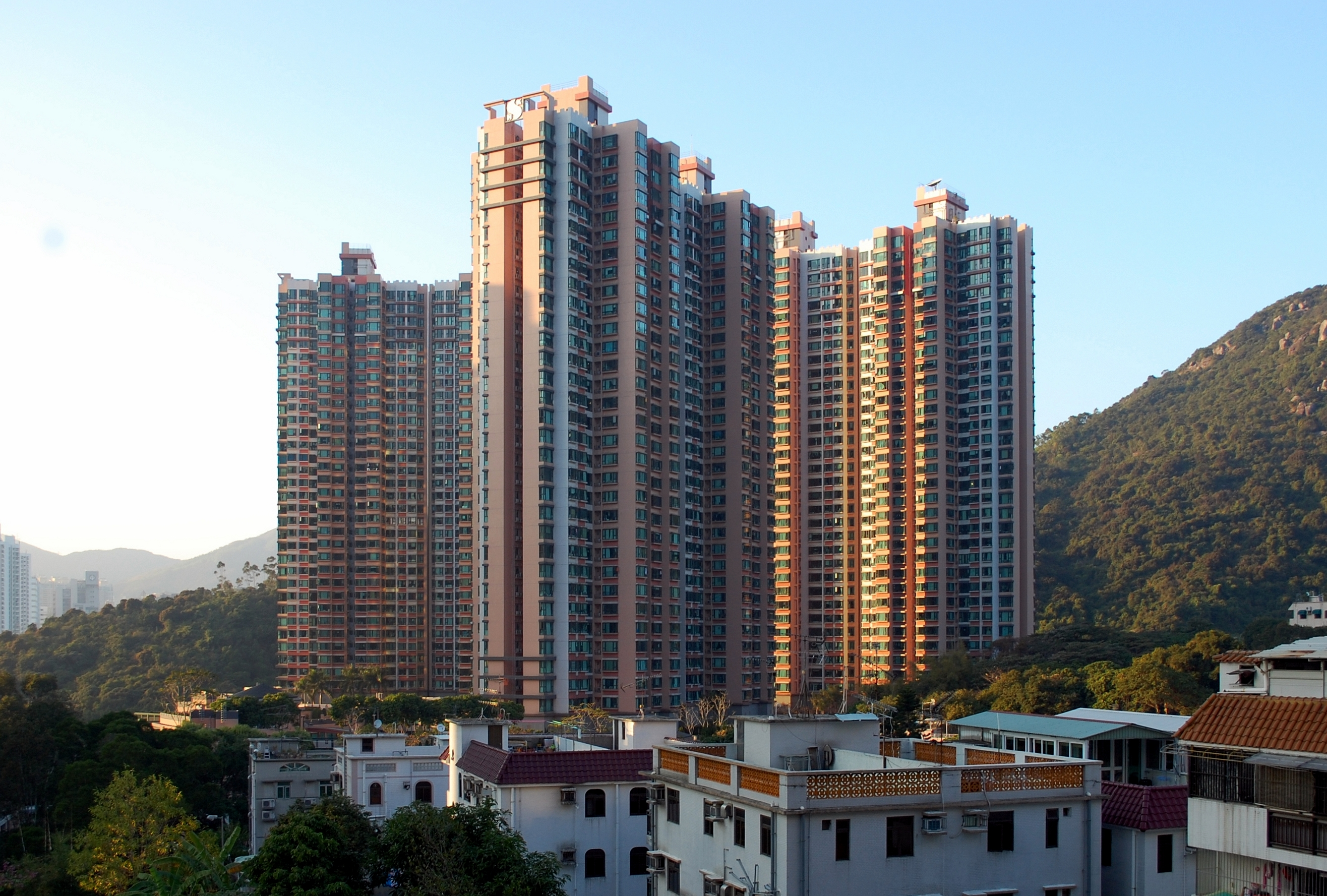 The Castello, a private housing estate in Sha Tin, Hong Kong, as viewed from the Kwong Yuen Estate car park.